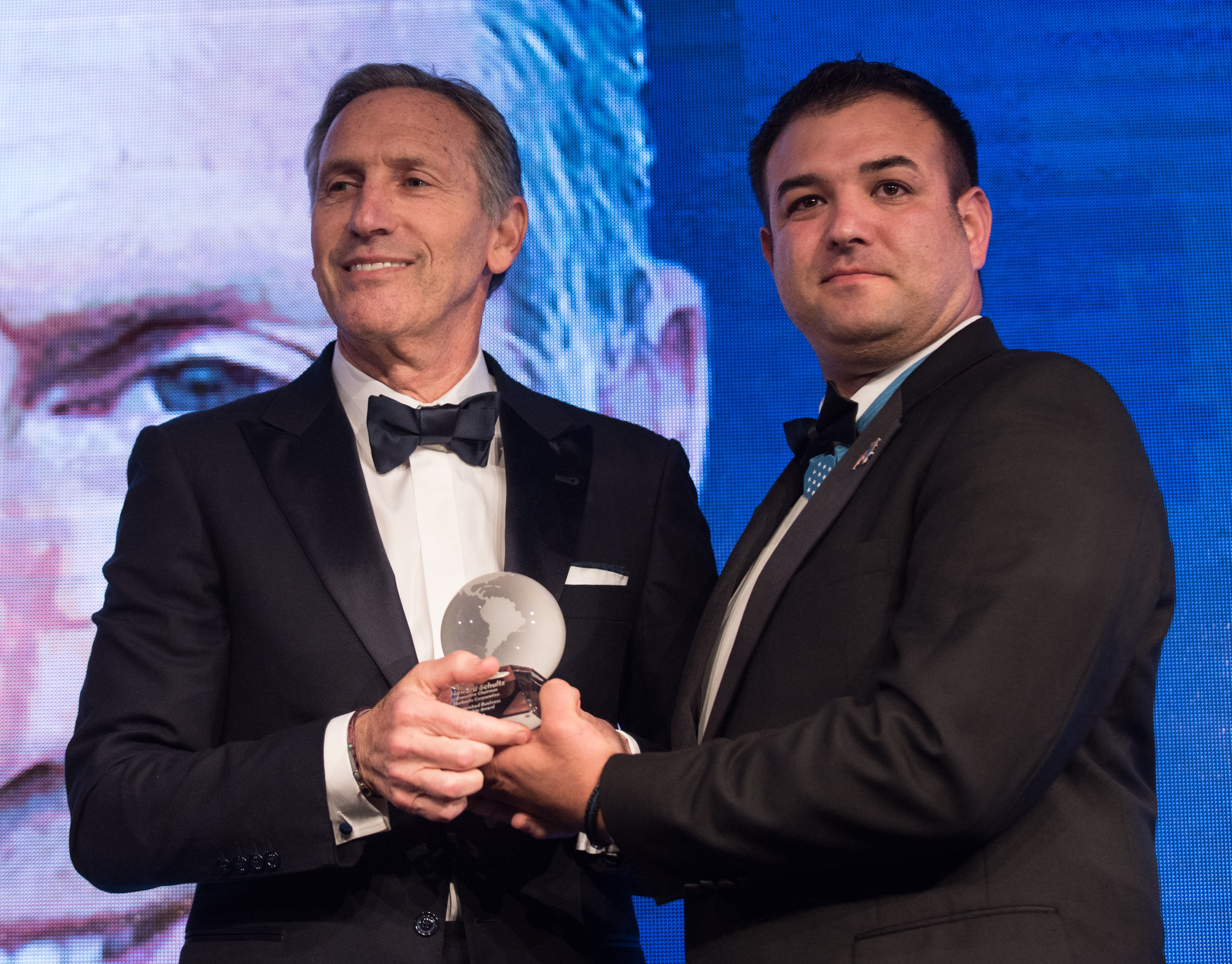 Retired U.S. Army Master Sgt. Leroy A. Petry, Medal of Honor Recipient, presents Mr. Howard Schultz, Executive Chairman of Starbucks Corporation, with the Distinguished Business Leadership Award, during the Atlantic Council’s Distinguished Leadership Awards dinner in Washington, D.C., May 10, 2018. The awards also recognized former U.S. President George W. Bush, U.S. Army Gen. U.S. Army Gen. Curtis M. Scaparrotti, Commander of U.S. European Command and Supreme Allied Commander, Europe; and Ms. Gloria Estefan, Grammy Award-Winning Singer; for embodying the pillars of the transatlantic relationship for their achievement in the fields of politics, military, business, humanitarian, and artistic leadership. (DoD Photo by U.S. Army Sgt. James K. McCann)